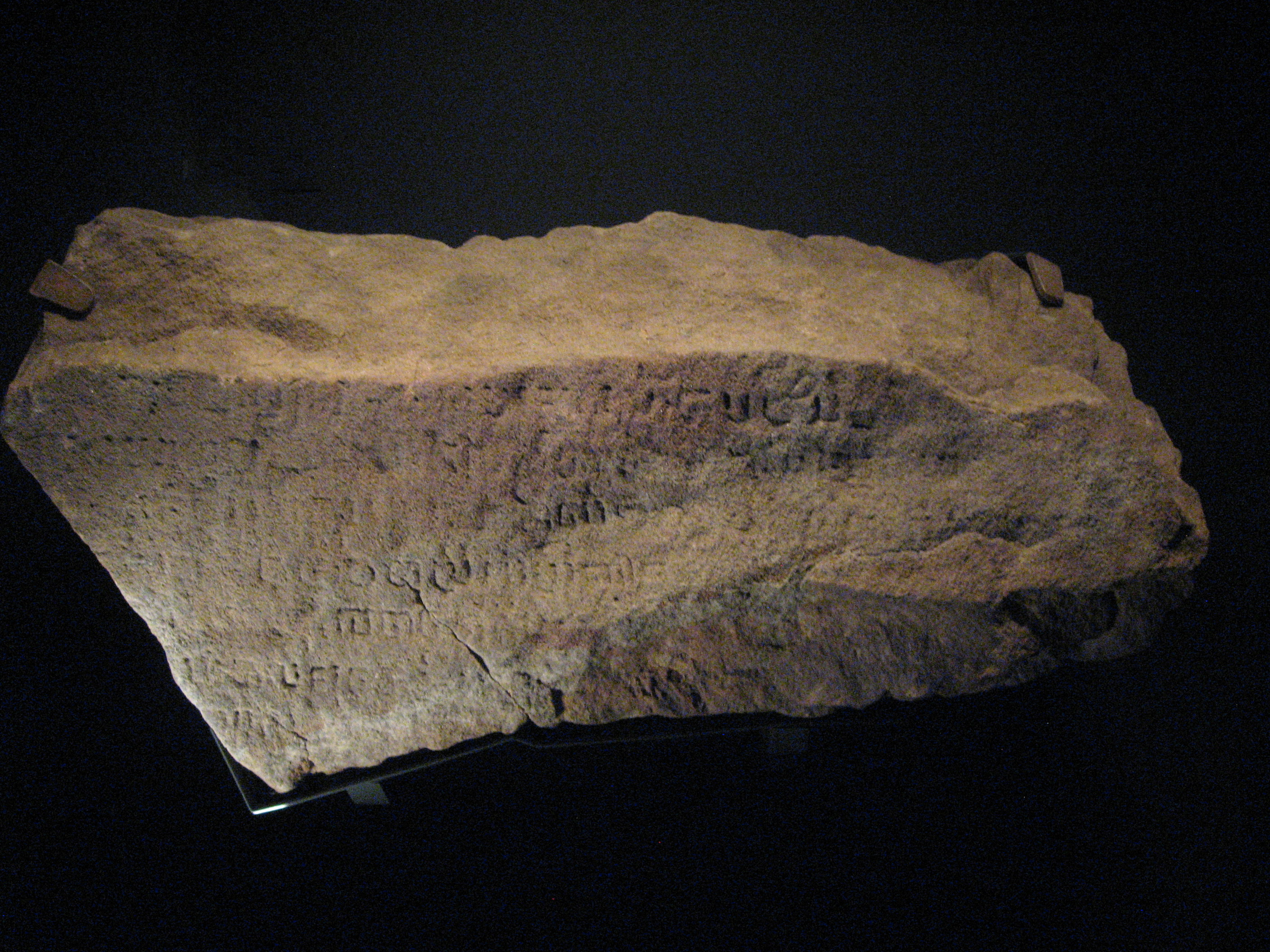 The Singapore Stone, a fragment of a large sandstone slab which originally stood at the mouth of the Singapore River. The slab, which is believed to date back to at least the 13th century and possibly as early as the 10th or 11th century, bore an undeciphered inscription. Displayed in the Singapore History Gallery of the National Museum of Singapore, the Singapore Stone was designated by the Museum as one of 11 "national treasures" in January 2006 and by the National Heritage Board as one of the top 12 artefacts held in the collections of its museums. See (Lim Wei Chean (31 January 2006). "Singapore's treasures". The Straits Times. Our top twelve artefacts. National Heritage Board. Archived from the original on 2008-08-22. Retrieved on 2007-07-17.